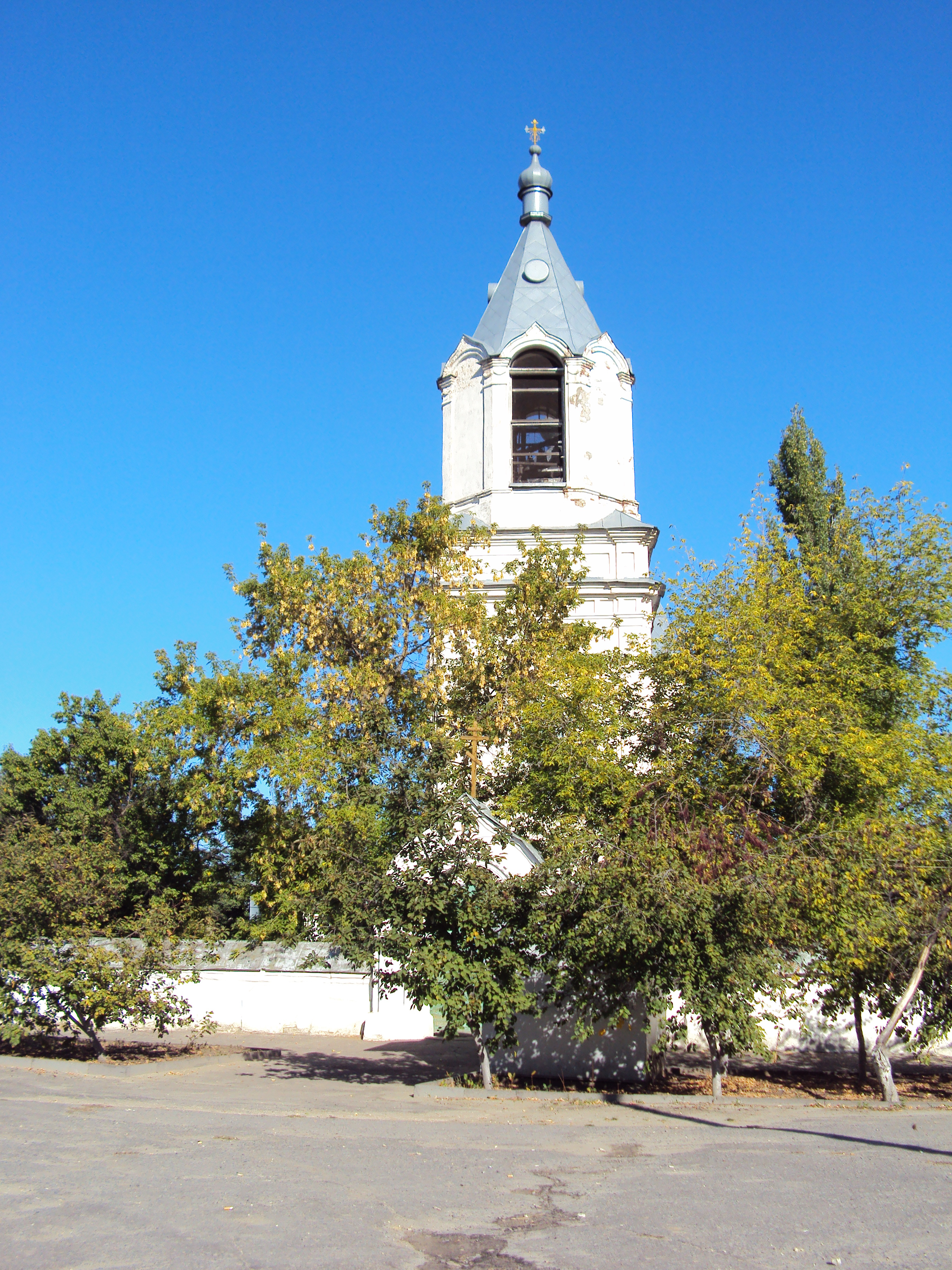 Belltower of the Voskresenskaya Church.